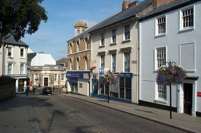 Fore Street, Bodmin from Turf Street, near to Bodmin, Cornwall, Great Britain.